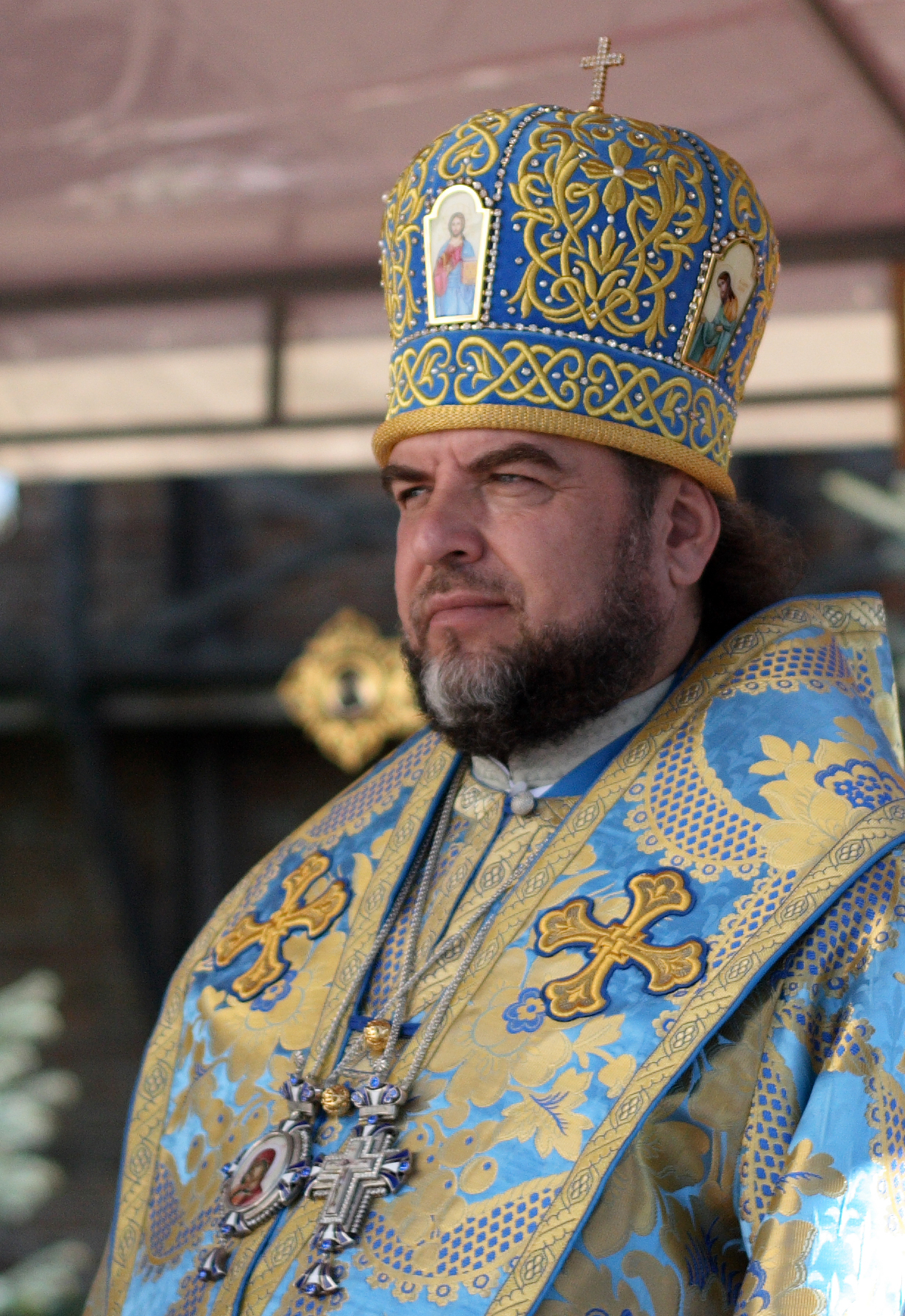 Metropolitan Simon of Vinnitsa